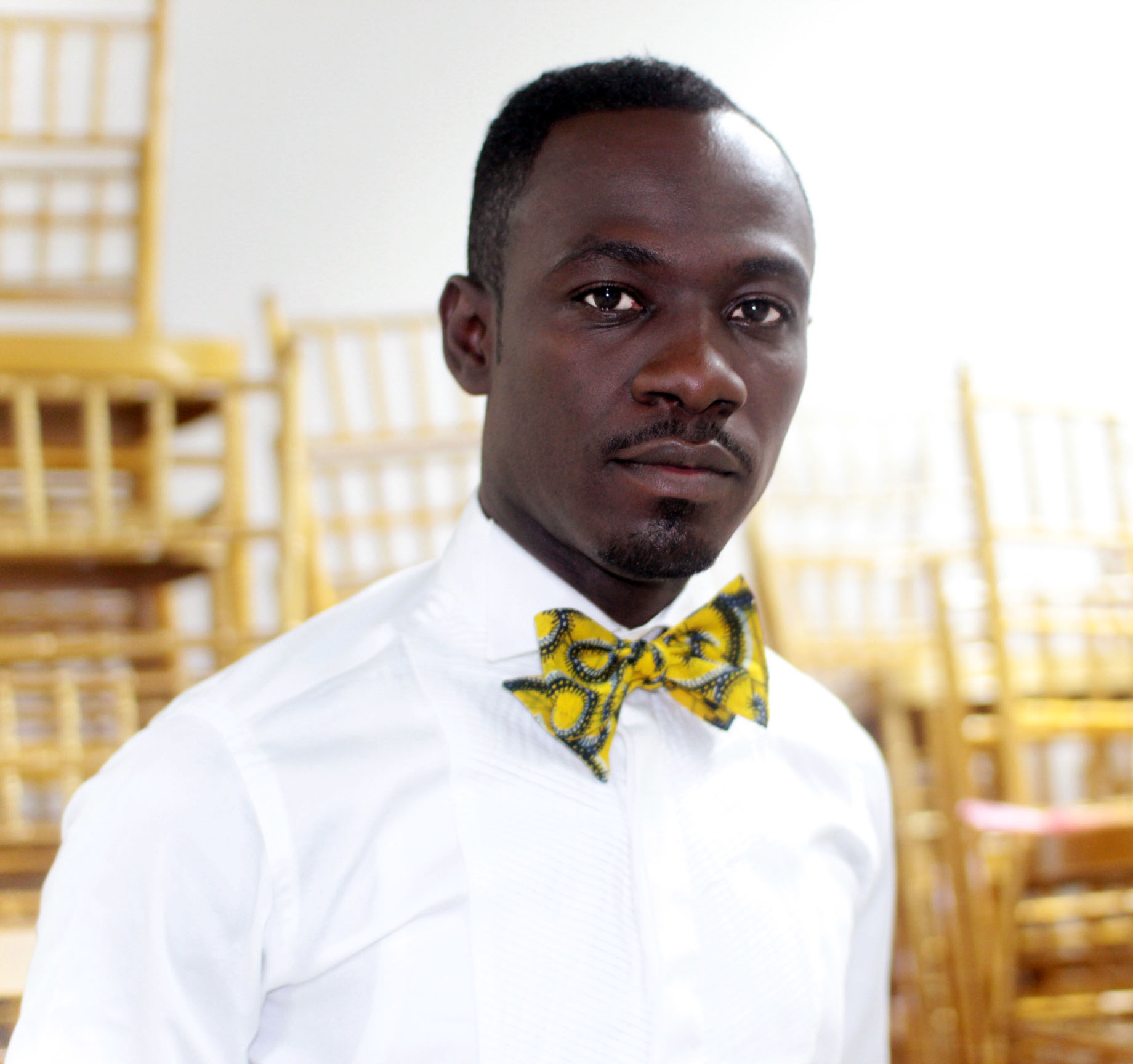 Ghanaian hiplife artiste